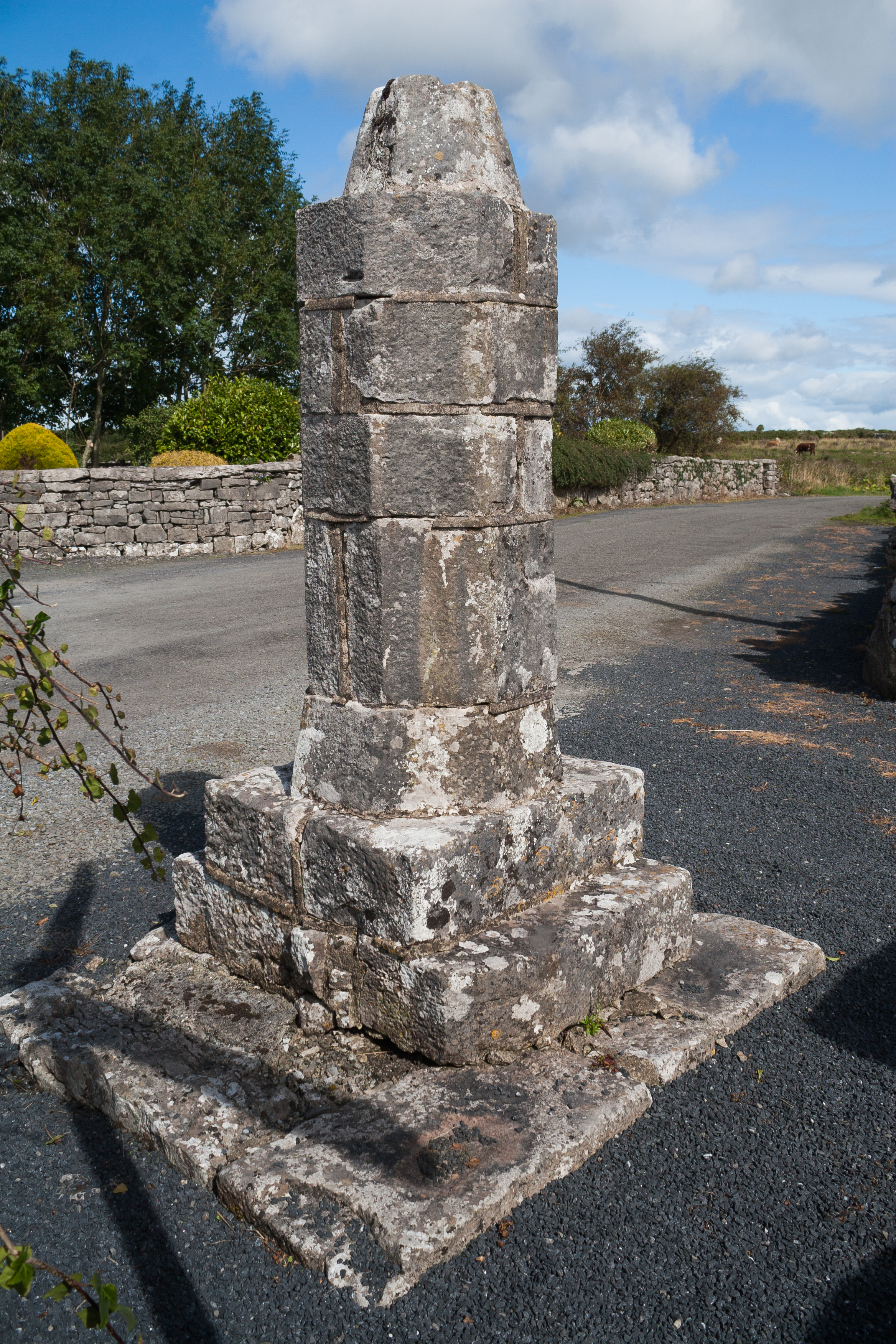 South-west view of the market stone at Noughaval.